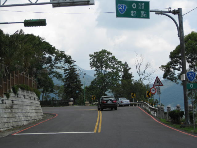 Provincial Highway No.21A begins at Sun Moon Lake in Nantou County, its near Provincial Highway No.21 junction.Bân-lâm-gú: Tâi-21-kah-suànn khí-tiám uī tsāi Lâm-tâu-kuān Ji̍t-gua̍t-thâm. Í Tâi-21-suànn sio-tsiap.